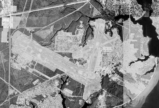 Eglin AFB, FL - 15 Feb 1999